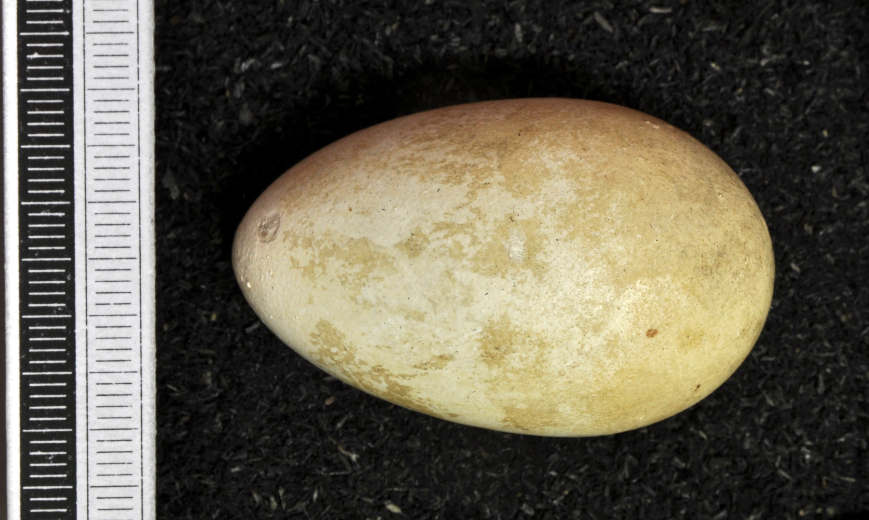 Pygmy cormorant Phalacrocorax pygmeus , egg, Coll. Museum Wiesbaden